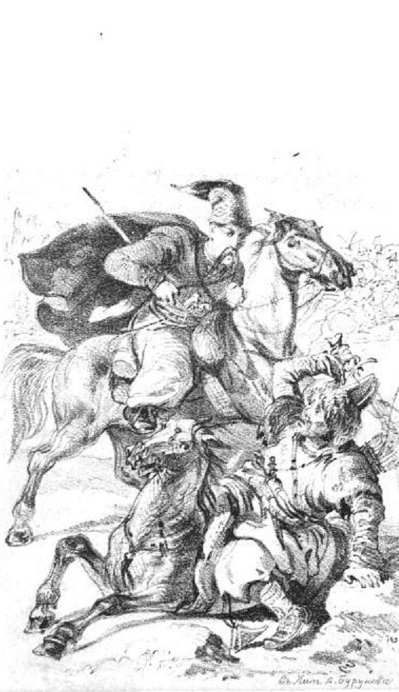 Kossacks